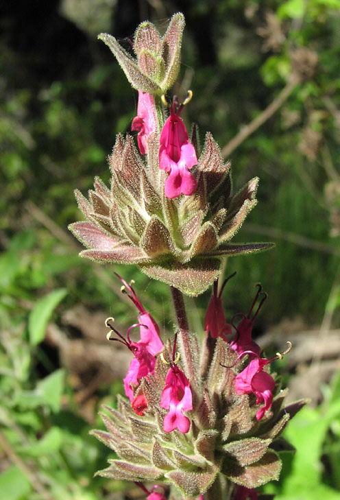 Salvia spathacea — Hummingbird sage. In Gaviota State Park, Santa Barbara County, California. March 2002. Photograph by Antandrus.